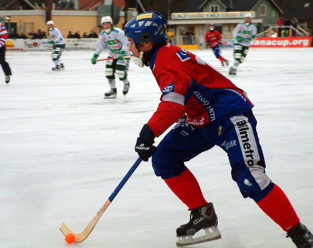 Swedish bandy player Magnus Olsson playing for Edsbyns IF against Västerås SK in one of the semifinal games during the 2005 Bandy World Cup in Ljusdal, Sweden.